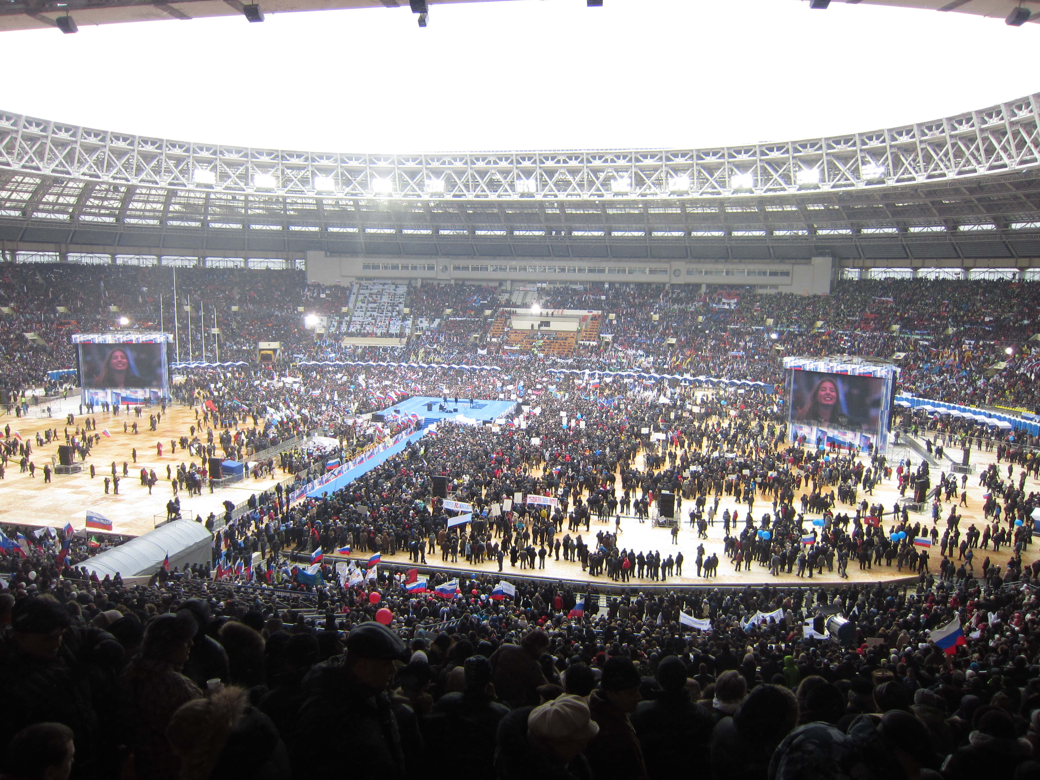 Pro-Putin concert at Luzhniki Stadium